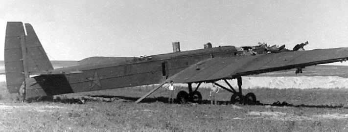 Tupolev TB-3 heavy bomber destroyed at the Balti airfield. Picture taken after taking over of Balti by JG-77